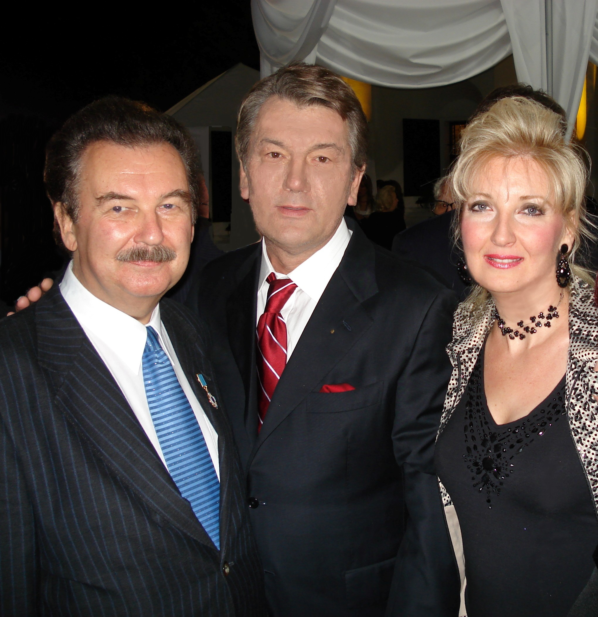 Yuri Shymko, Victor Yushchenko, Lisa Shymko